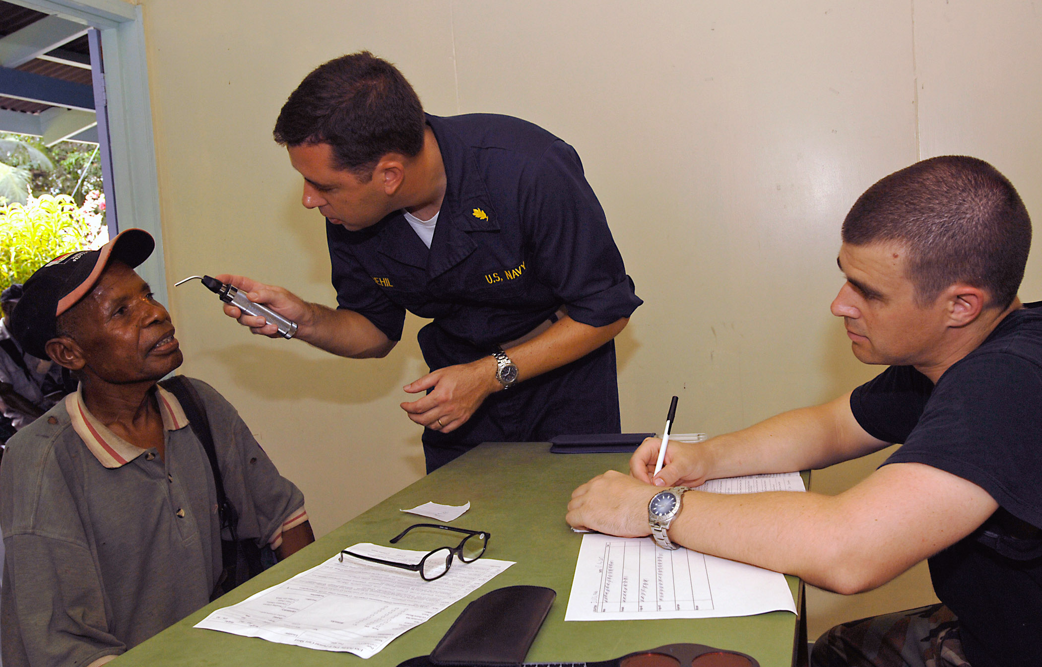 MADANG, Papua New Guinea (Aug. 13, 2007) - Lt. Cmdr. Matthew examines a patient for cataracts while U.S. Air Force Tech Sgt. Rayno Boivin attached to the 36th Medical Group, transcribes the diagnosis at Ileg Clinic near Madang. The medical civil-assistance program is one of many in Papua New Guinea in support of Pacific Partnership. The four-month humanitarian deployment focuses on areas in Southeast Asia and Oceania. U.S. Navy photo by Mass Communication Specialist 3rd Class Bryan M. Ilyankoff (RELEASED)